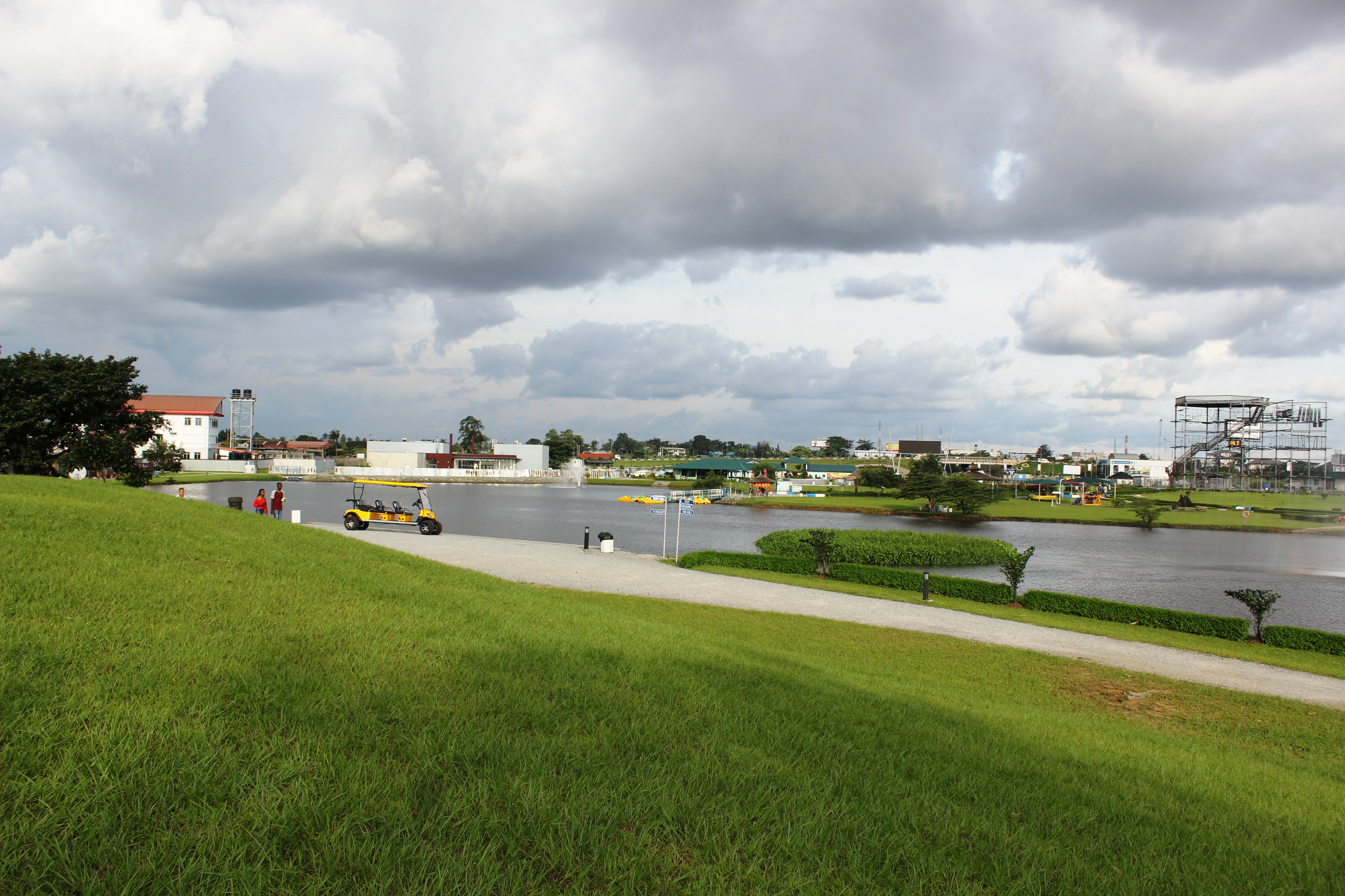 Viewing the artificial lake of Port Harcourt Pleasure Park from a section of the park.